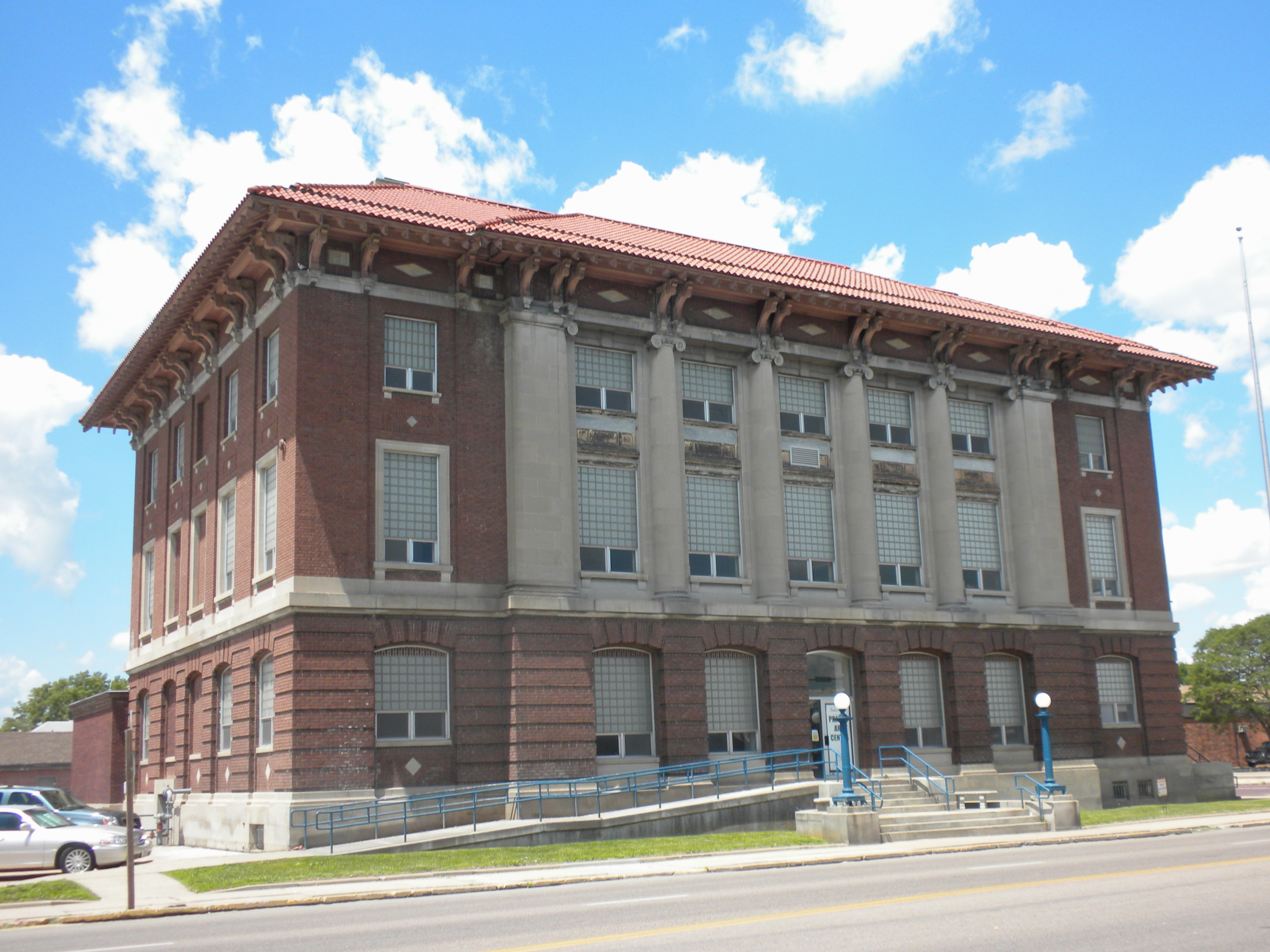 North Platte US Post Office and Federal Building on the NRHP since March 4, 2009. At 416 North Jeffers Street, North Platte, Nebraska. Cornerstone give Franklin MacVeagh as Sec of the Treasury and James Knox Taylor as Supervising Architect, MCMXI (1911). Now seems to be used as an art center